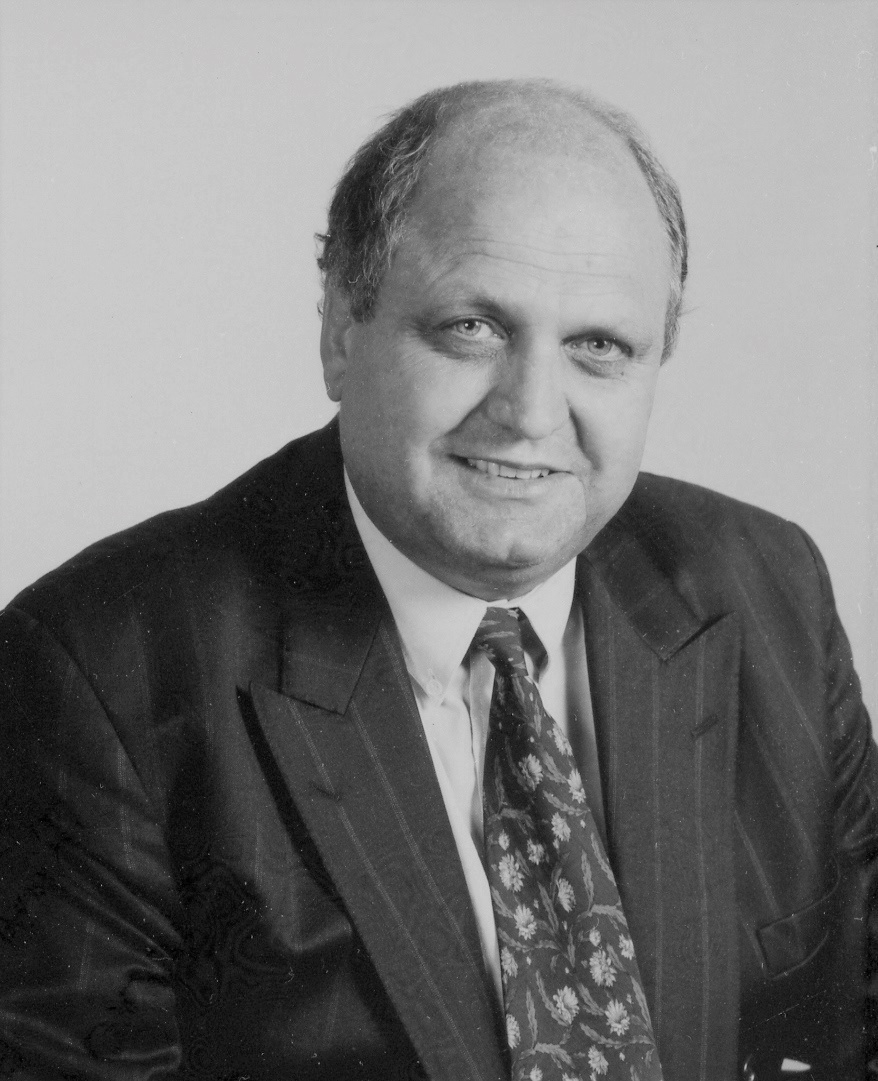 A photograph of Mike Moore taken in 1992 by the Inter-Parliamentary Relations Office.